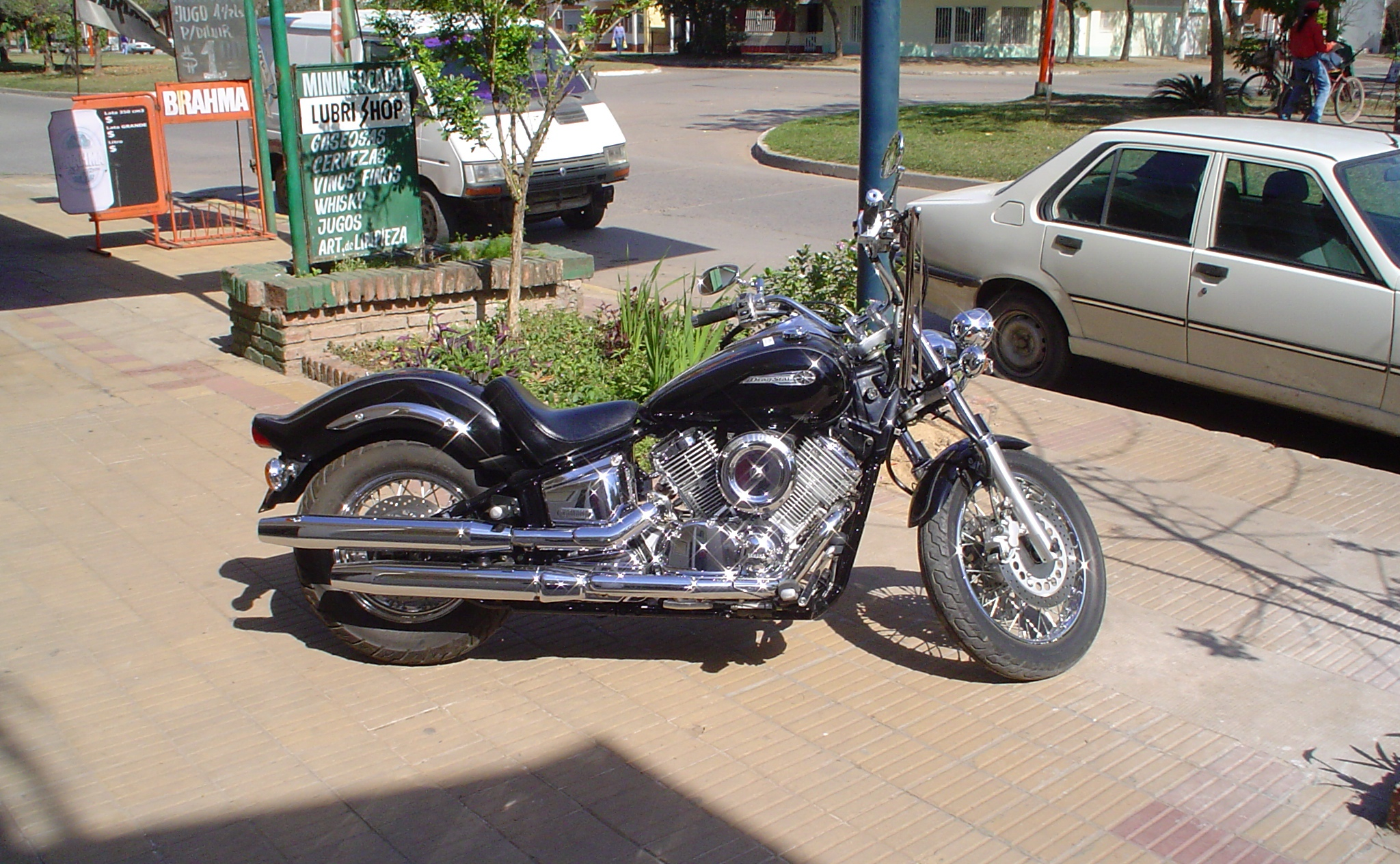 Yamaha DragStar 1100 (XVS1100), 2001 model for Argentina, with the back seat removed. Made in Japan. In the back, a 1992 Renault 18 TX 2.0L and a Renault Trafic with a damaged front bumper. Photo taken in the city of Resistencia, Argentina.